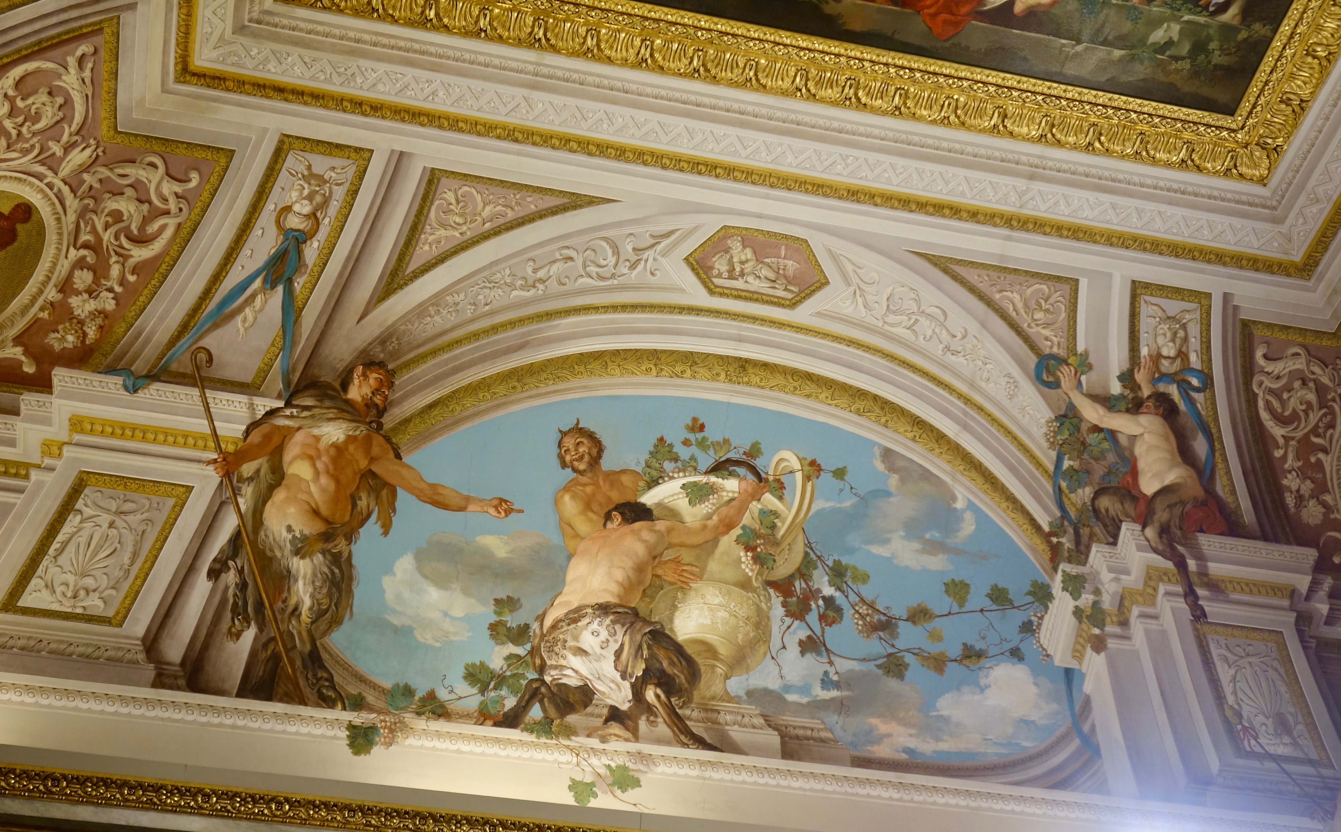 Rome, Italy